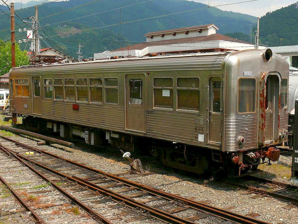 Oigawa Railway Train type 1105 (Japan).